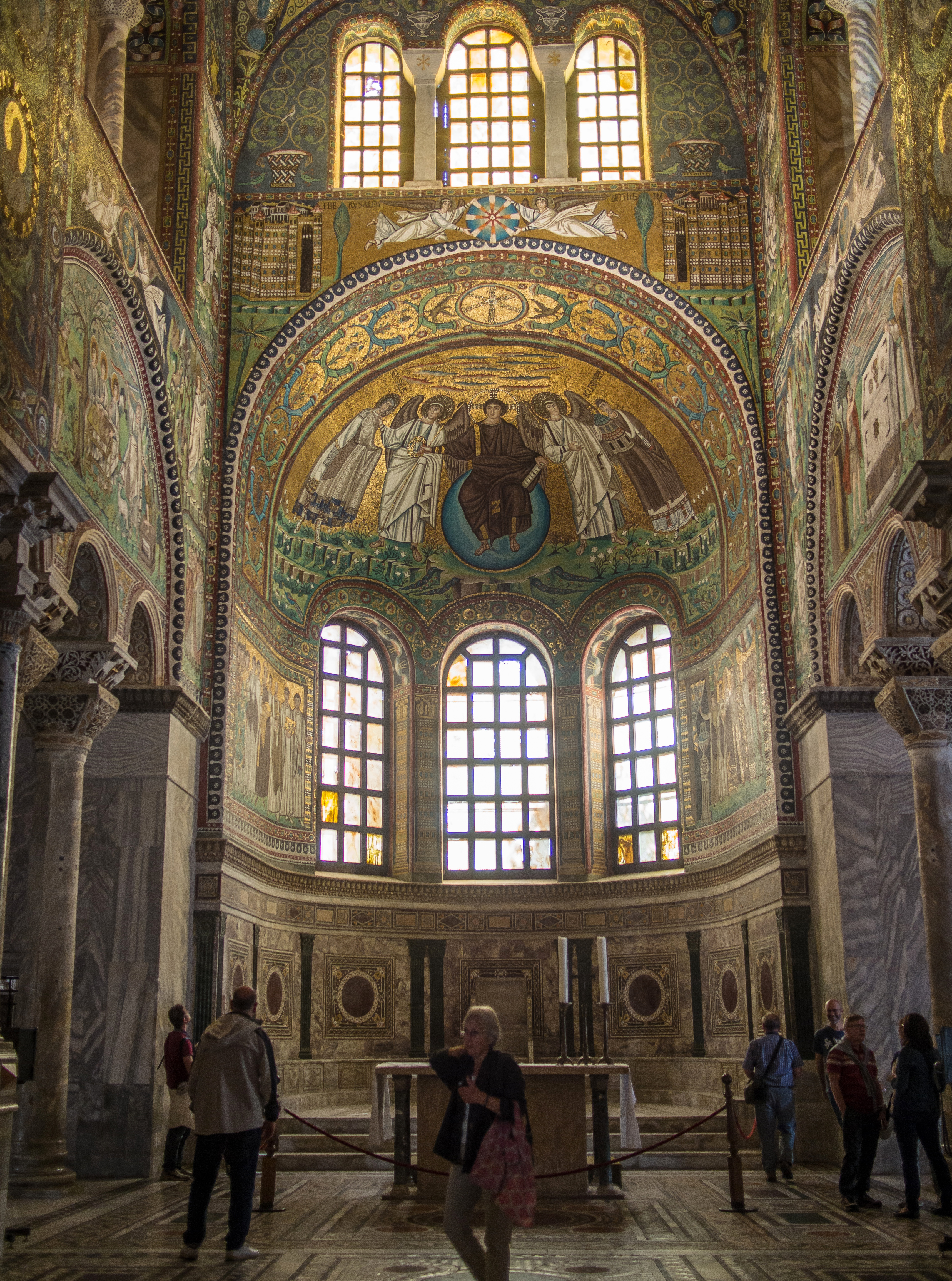 Ravenna - Basilica of San Vitale - mosaic